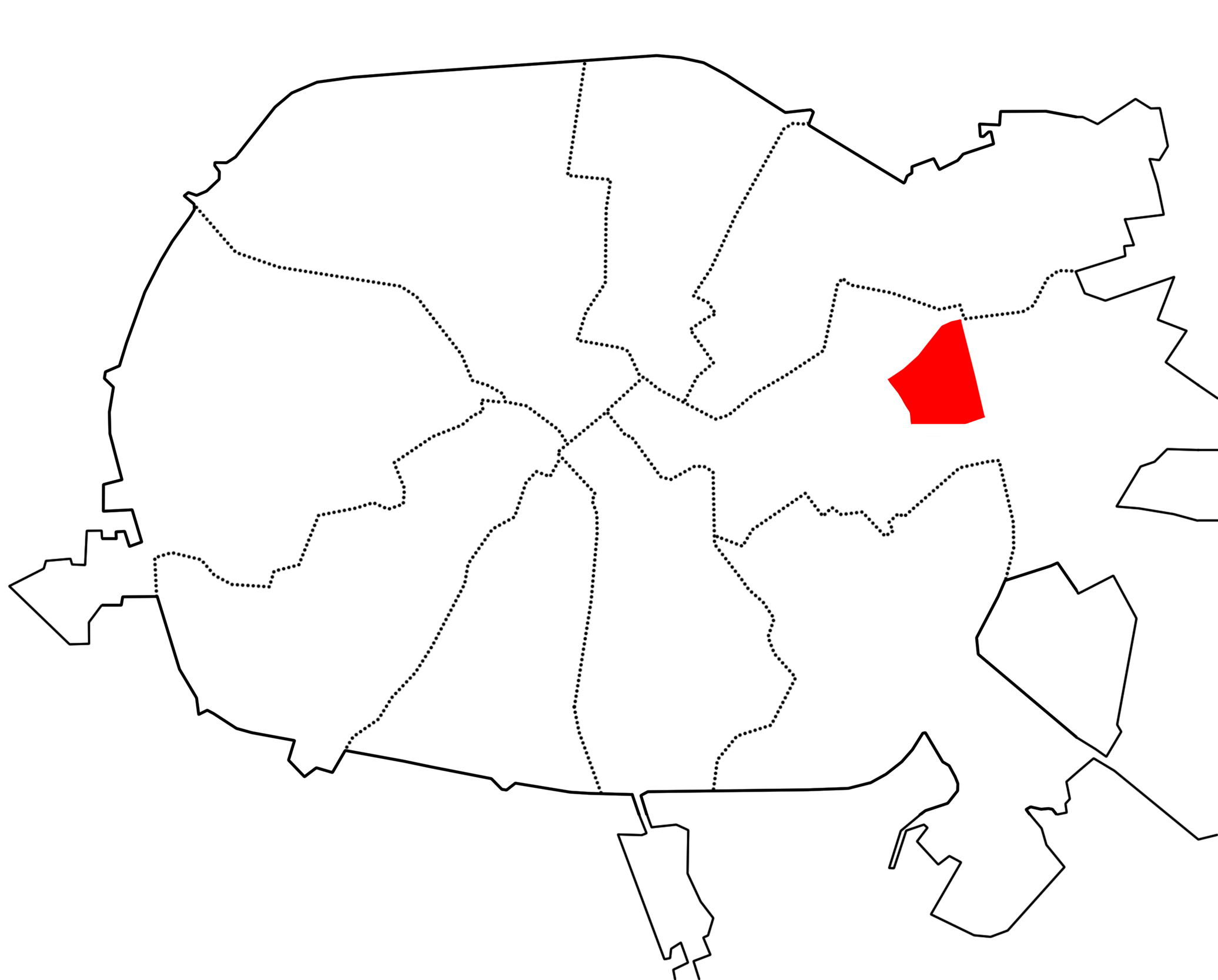 Sciapianka microdistrict in Minsk, Belarus